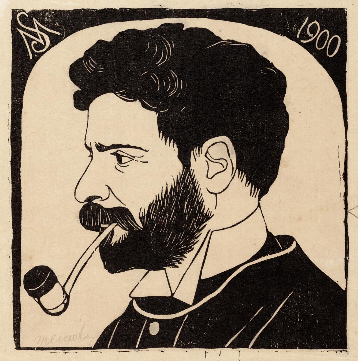 Woodcut. Early self-portrait of Samuel Jessurun de Mesquita. His first self-portrait dates from 1896, the second from 1898. This self-portrait from 1900 is the third in row. Until his deportation to Auschwitz in 1944, Mesquita very regularly made self-portraits, either as a woodcut, an etching or a drawing.